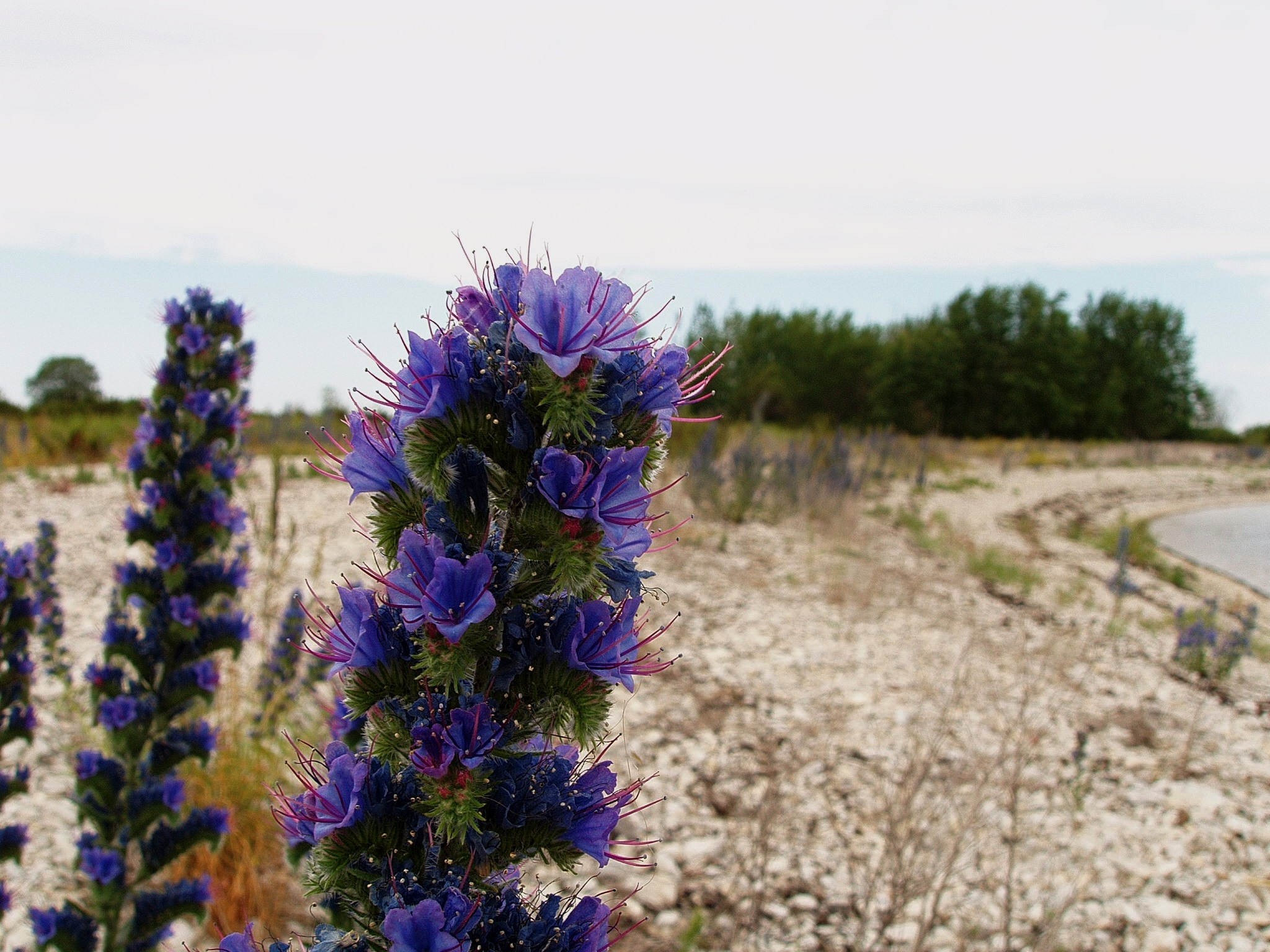 Viper's Bugloss (Echium vulgare). Picture is made in Estonia, Osmussaar.